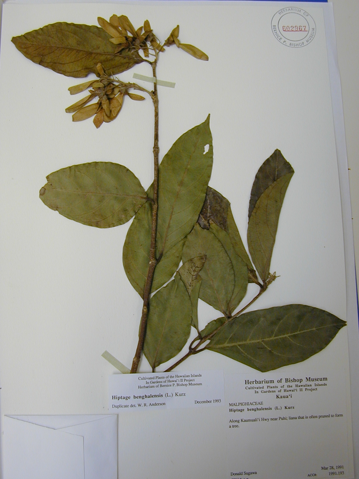 Hiptage benghalensis (BISH specimen). Location: Kauai, Waimea